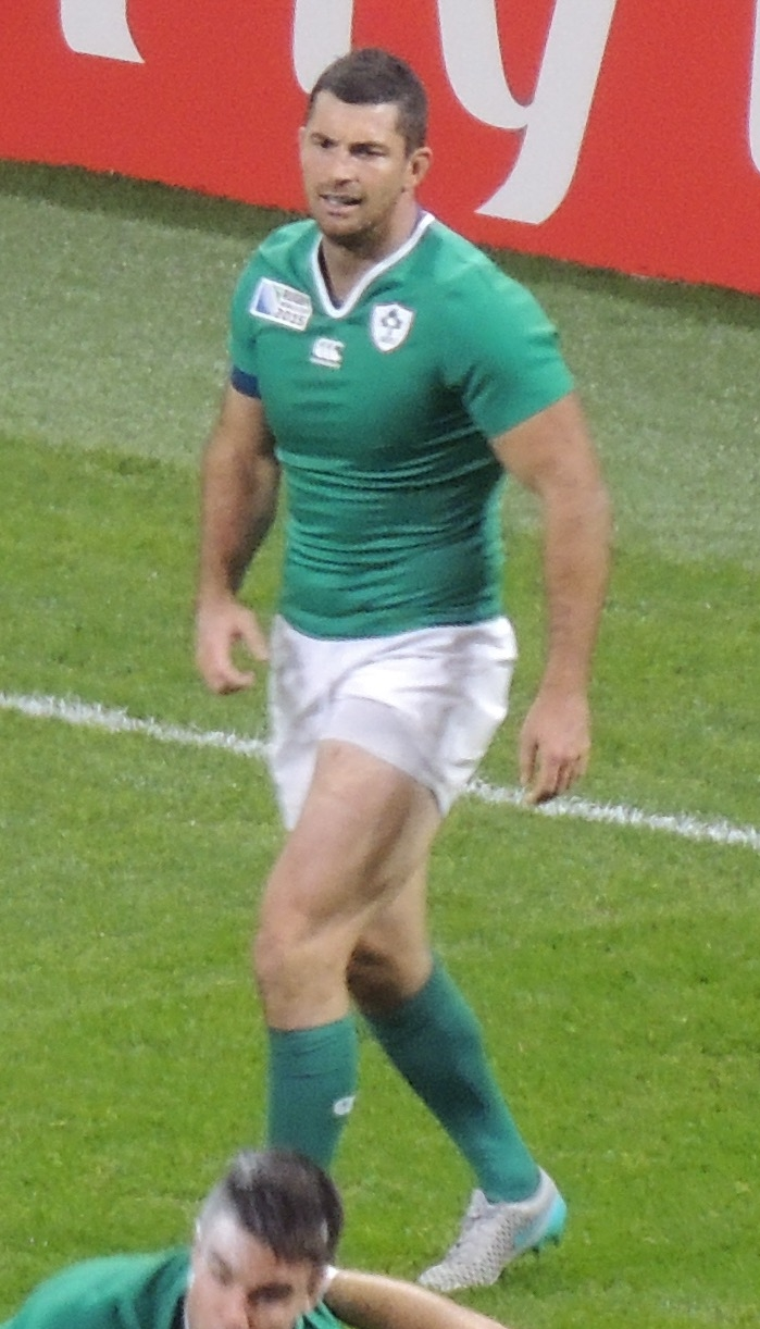 2015 Rugby World Cup game Ireland vs Canada at Millennium Stadium in Cardiff.